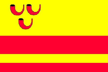 Flag of the Dutch municipality of Haelen, own work - Quistnix 23:33, 26 November 2005 (UTC)